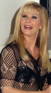 Ginger Lynn at the 1999 East Coast Video Show in Atlantic City